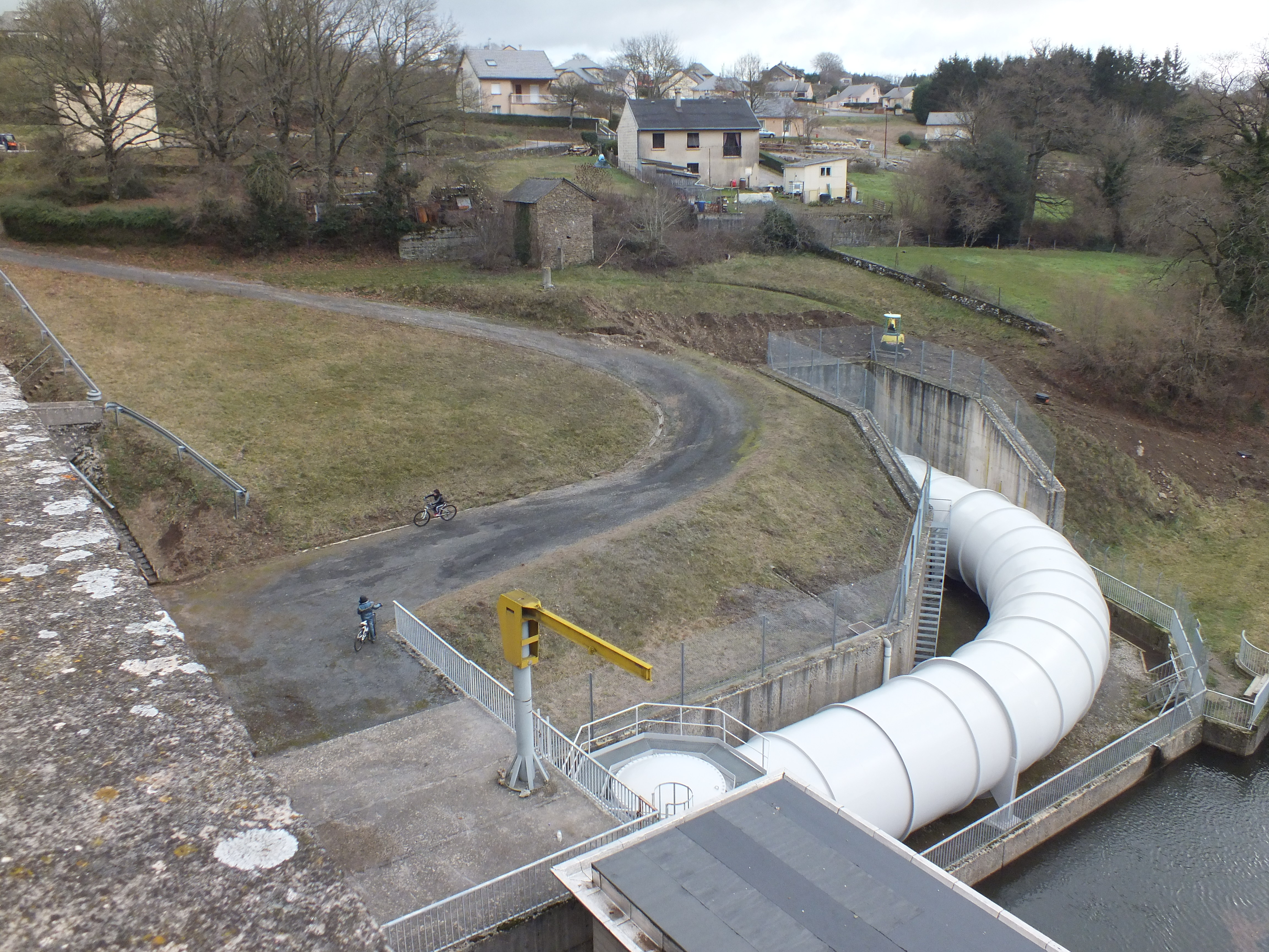 The Barrage de Villefranche-de-Panat at Villefranche de Panat, Aveyron, France was built between 1949 and 1952 on the Alrance (river). Waters from here pass to the balancing reservior at the Lac de Saint Amans, and through to Le Pouget (power station). Penstock entering culvert. Quartier du Thieron behing.